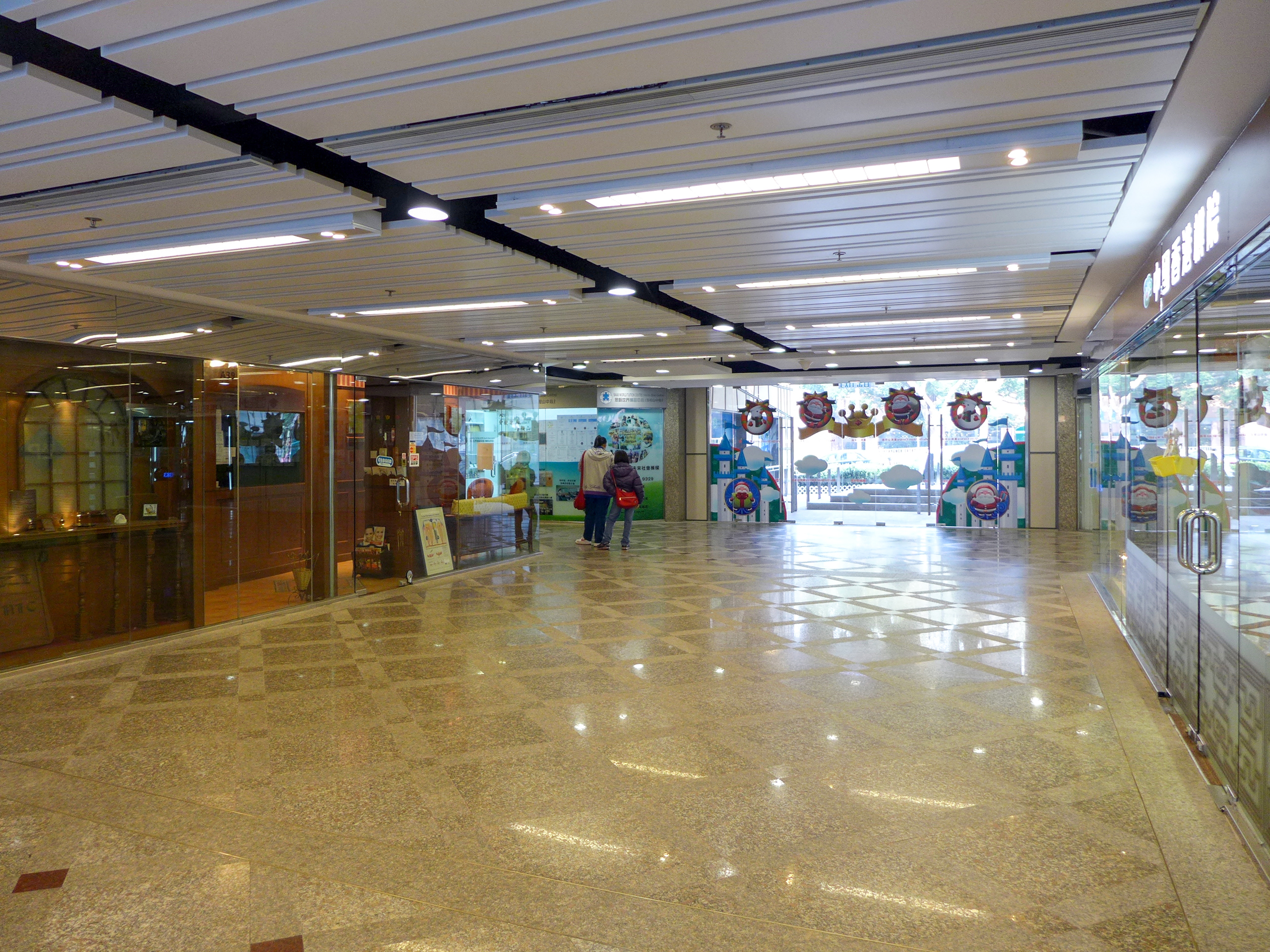 Ma On Shan Centre G/F Shops